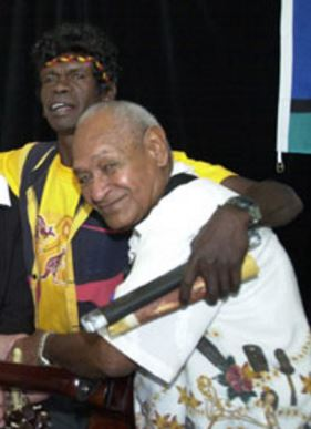 Cropped photo of George Rrurambu (left) and Seaman Dan (right) at the launch of Listen up! Music of Black Australia in July 2002